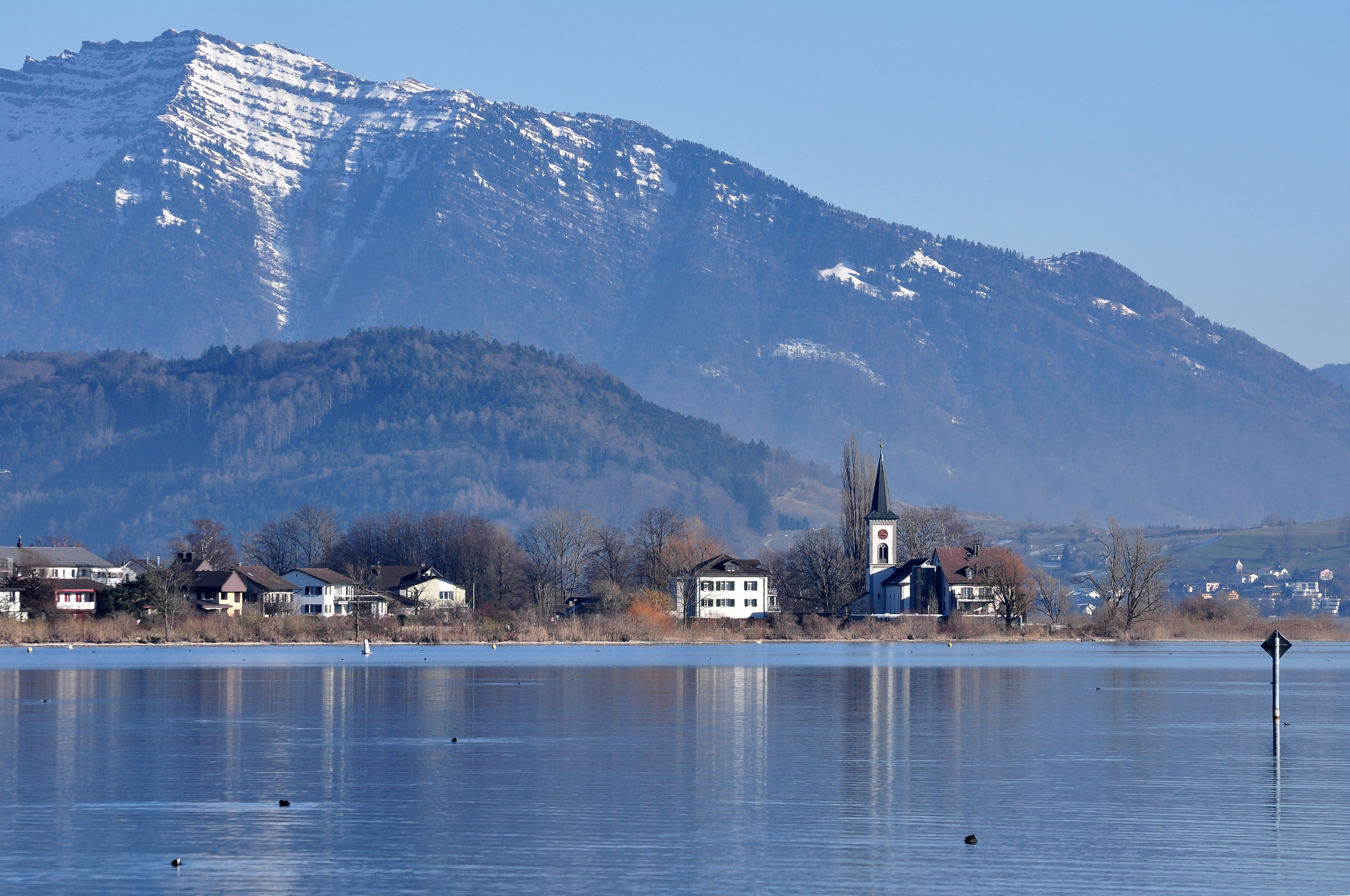 Obersee (upper Lake Zurich) and St. Martin Busskirch, as seen from Holzbrücke (wooden bridge) in Rapperswil (Switzerland), Buechberg and Federispitz in the background.